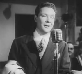 Cropped screenshot of Kenny Baker from the film Stage Door Canteen.